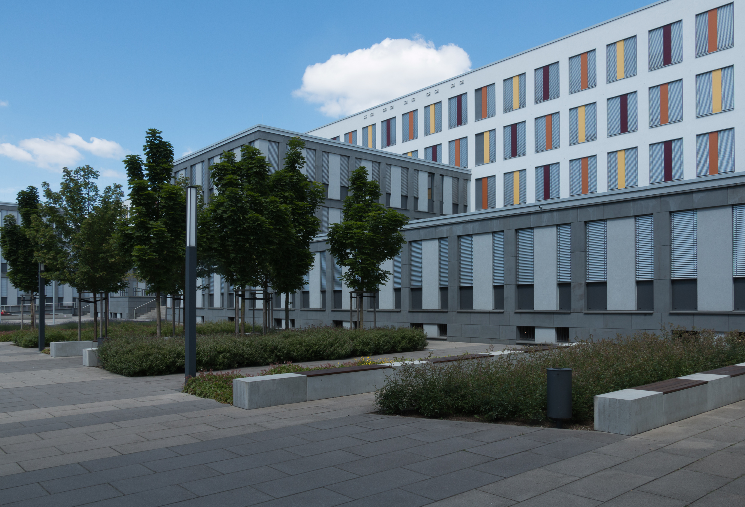 The Judiciary Center in Wiesbaden in der Mainzer Straße hosts several courts.